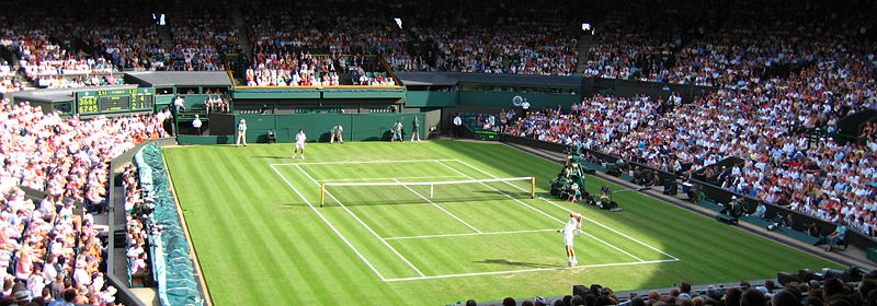 Tim Henman vs Jarkko Nieminen on Centre Court at Wimbledon